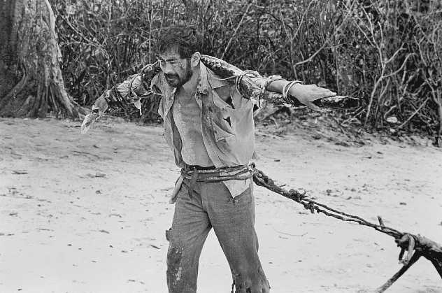 Toshiro Mifune character in filming of Hell in the Pacific (1968)